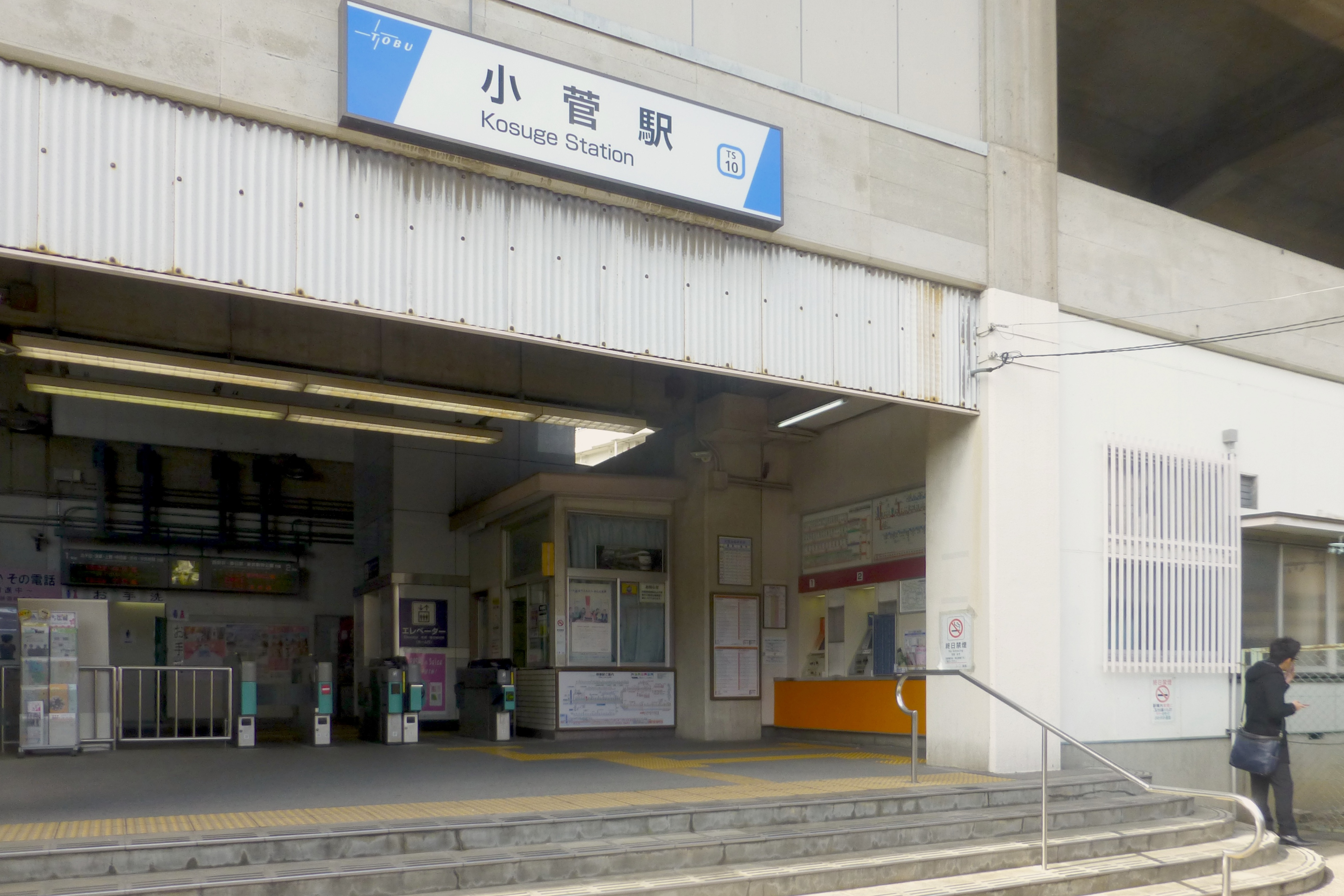 Entrance of Kosuge Station on the Tobu Skytree Line in Adachi, Tokyo, Japan